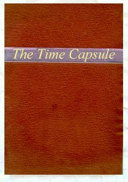 Book of Record of Cupaloy simulation - 1938 Westinghouse Time Capsule description